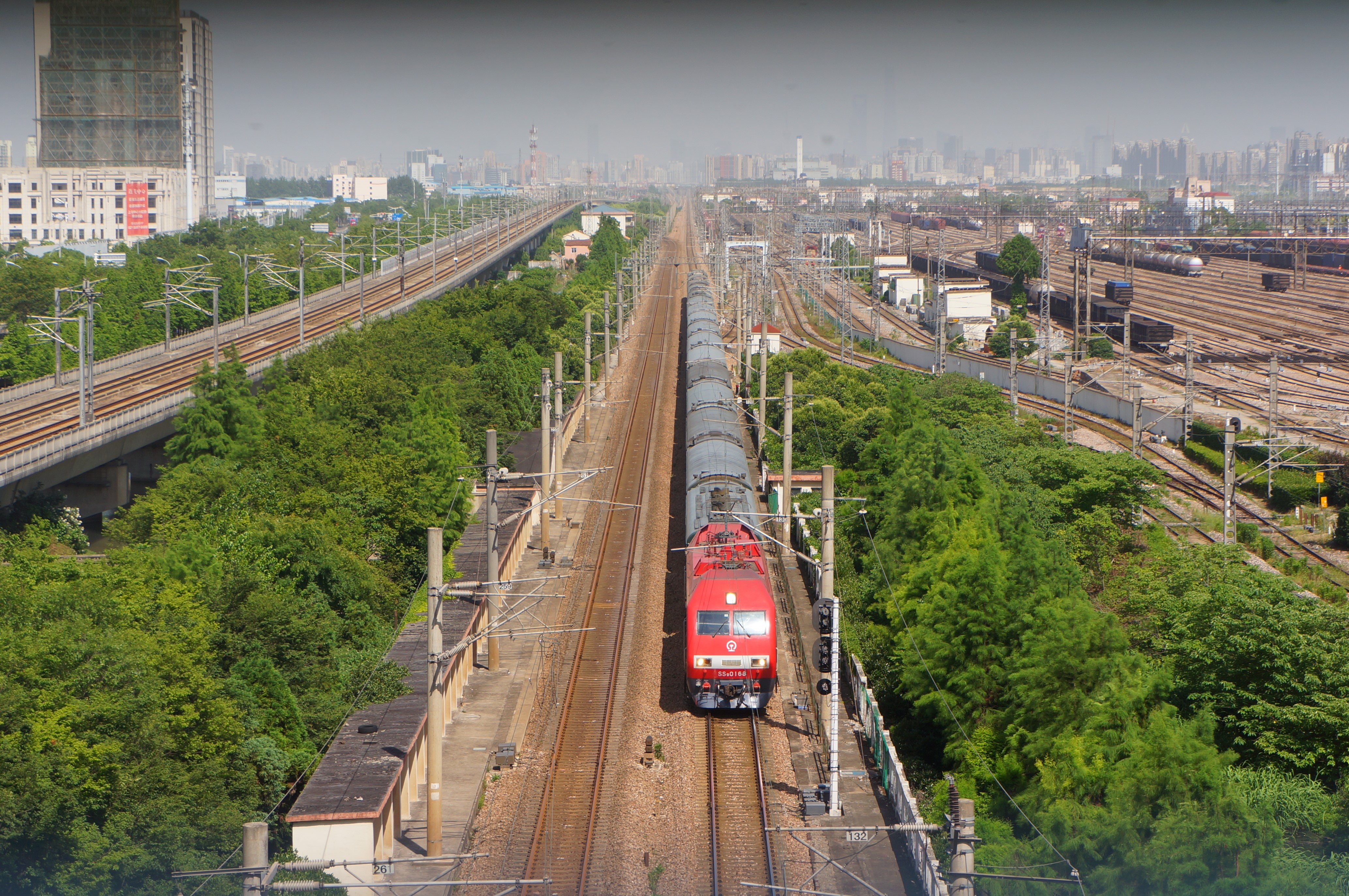 201805 SS9G-0168 hauls T132 to Dalian at Nanxiang